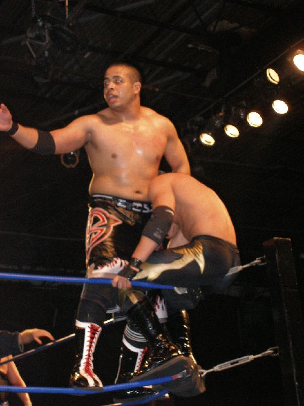 Wrestler, Joker at Chikara's King of Trios 2008 tournament in March.